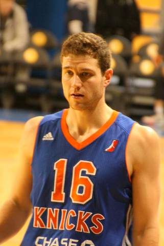 Jimmer Fredette of Westchester Knicks